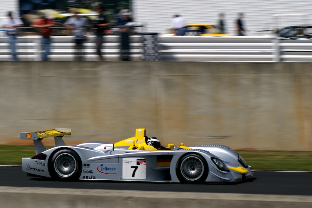 An Audi R8 in Historic Racing at Road Atlanta